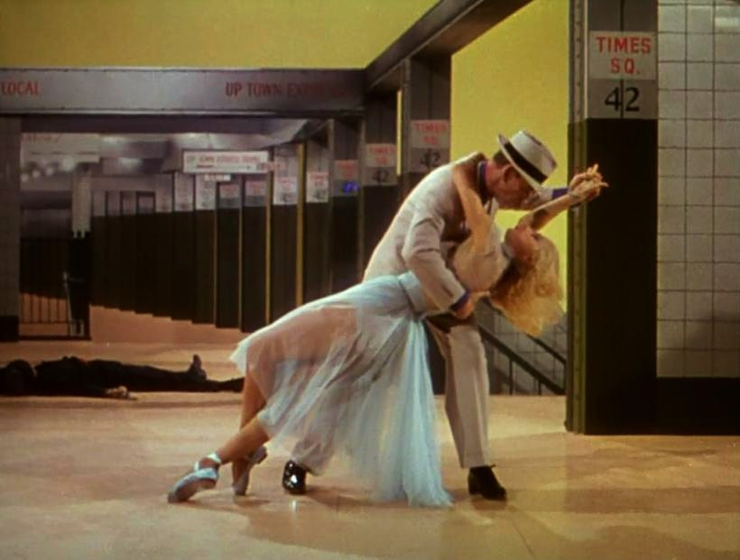 Cyd Charisse & Fred Astaire (number Girl Hunt Ballet) in The Band Wagon - trailer (cropped screenshot)